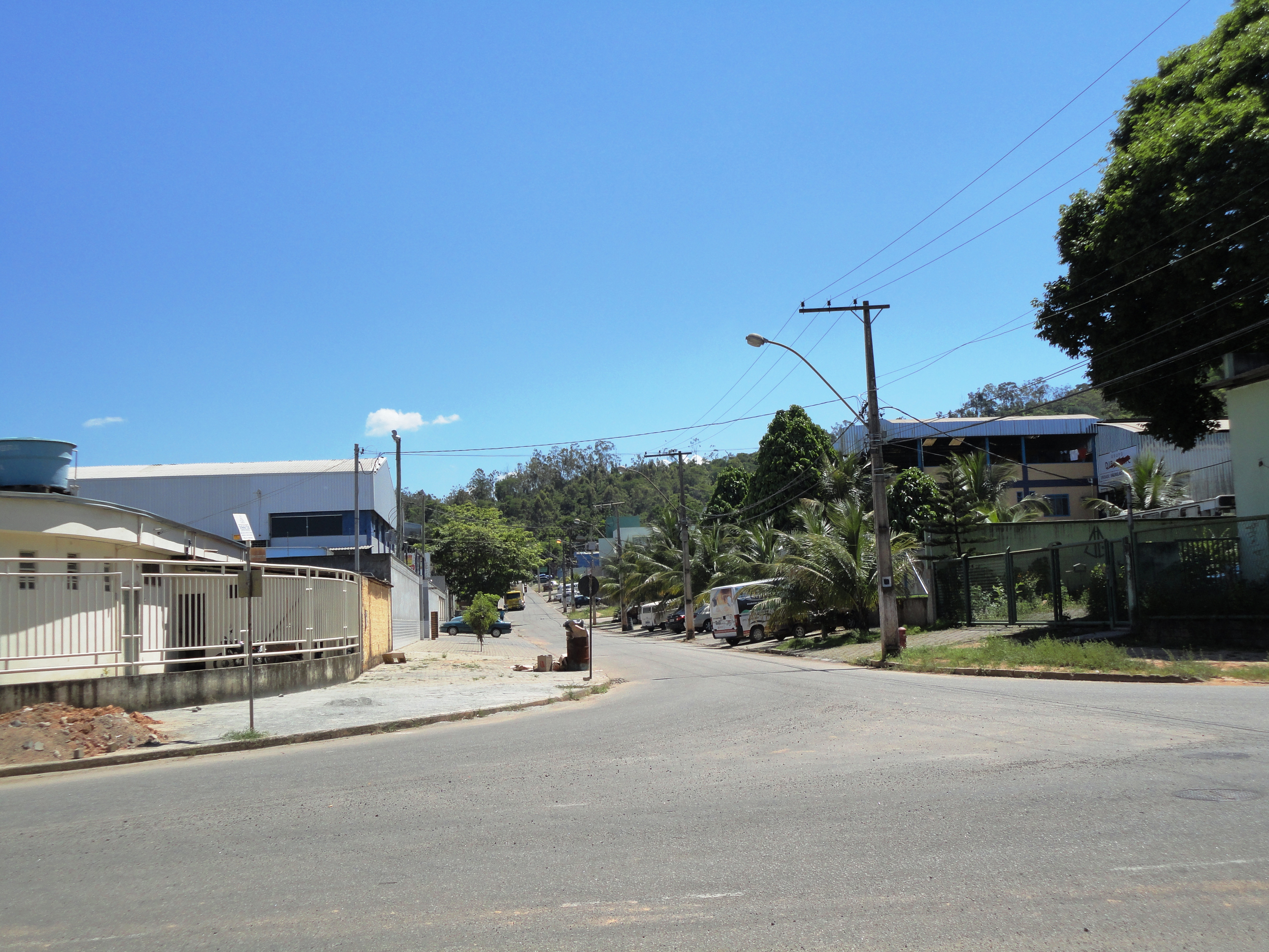 Street of the Industrial District of Coronel Fabriciano, Minas Gerais, Brazil.